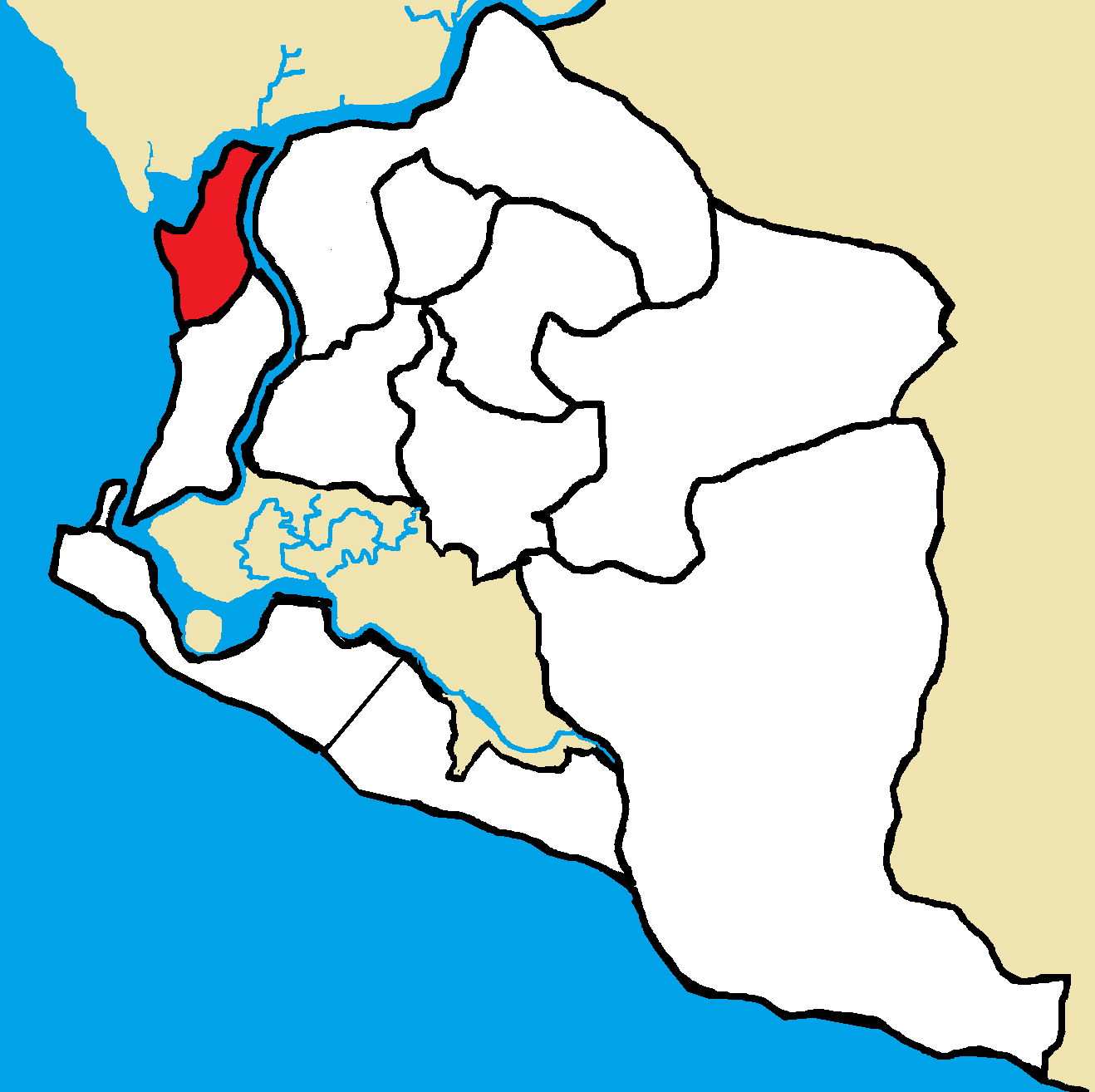 Map showing the city corporations, townships and borough of the Greater Monrovia District. Borders are approximate.